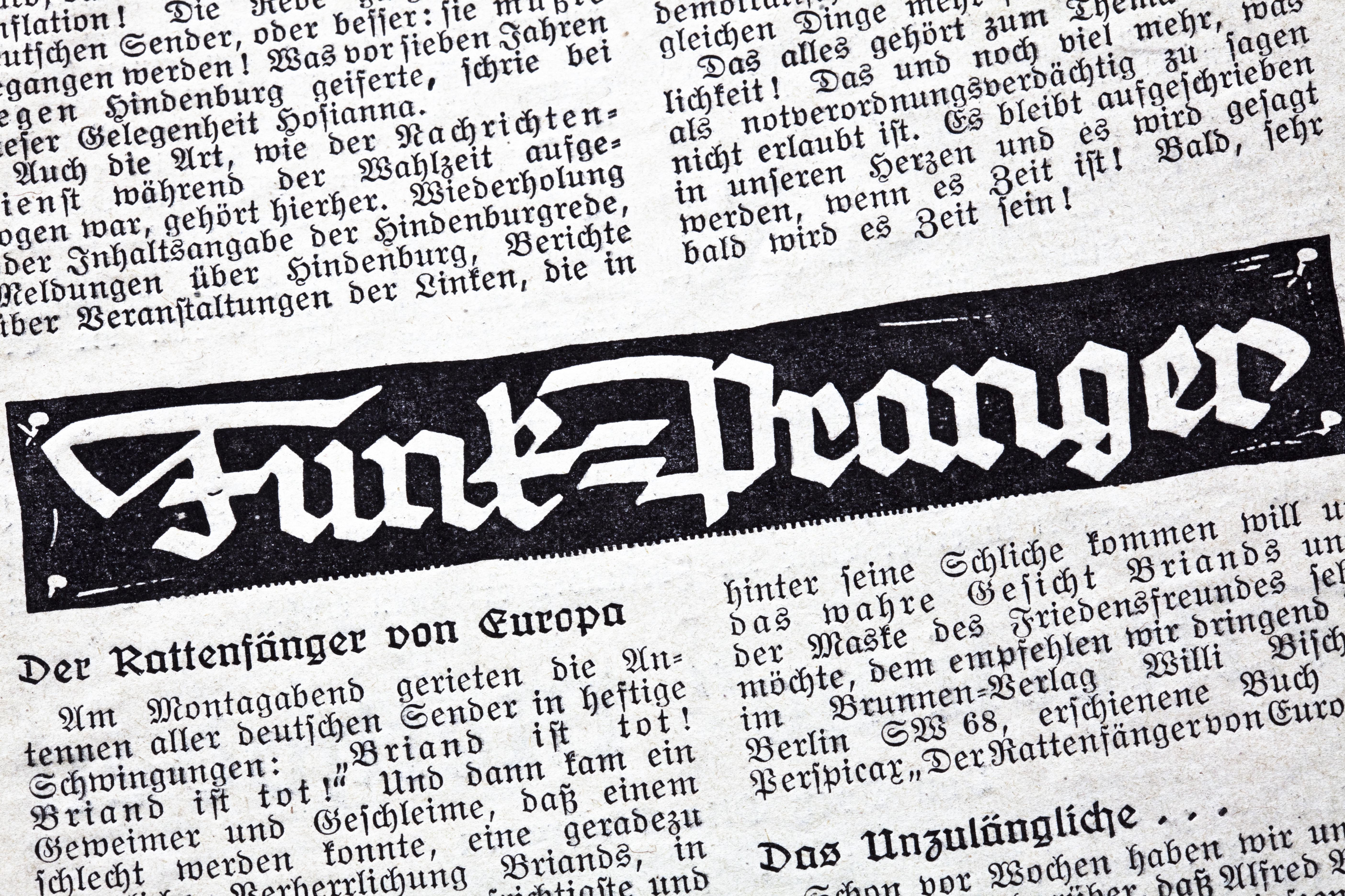 Photograph of a section of page 4 of "Der Deutsche Sender", a German radio publication run by the Nazi Party and other right wing groups. This section is called "Funk-Pranger", a harsh expression for radio reviews.